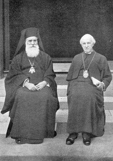 In the photo, Patriarch Meletios of Alexandria meets with the Anglican Archbishop Cosmo Gordon Lang of Canterbury, 8 July 1930. Note the double headed eagle. This is not wrong for him to wear, but it is very unusual that a church leader would do so. Generally they wear a cross, an ikon (religious picture), or both. The double headed eagle is a legitimate symbol, sometimes used in Orthodoxy, because it was the symbol of the Byzantine Empire, the state that most strongly fostered Greek Orthodoxy. The state and the church were particularly close.